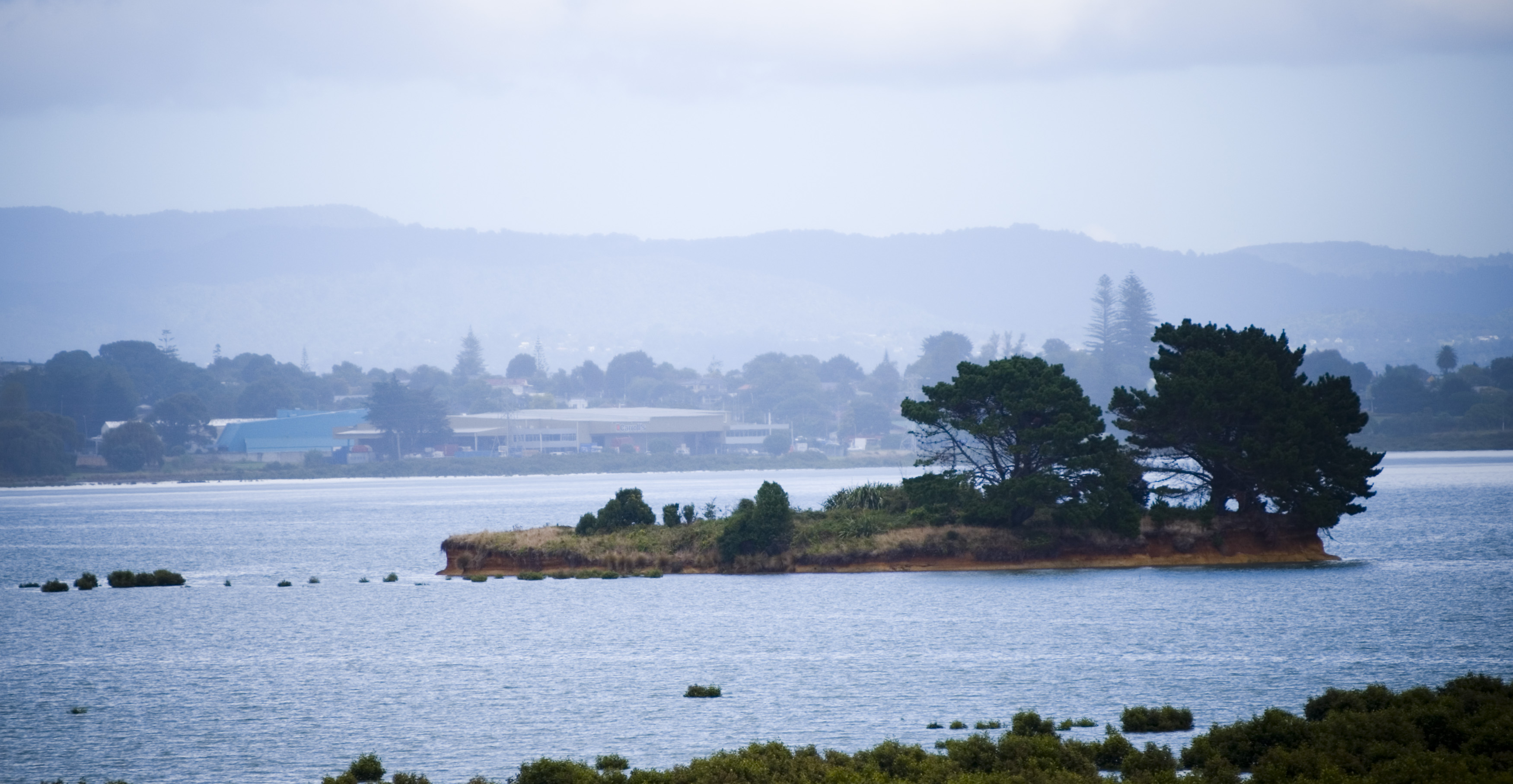 Picture of Newzealand's Private Island in the Manukau Harbour